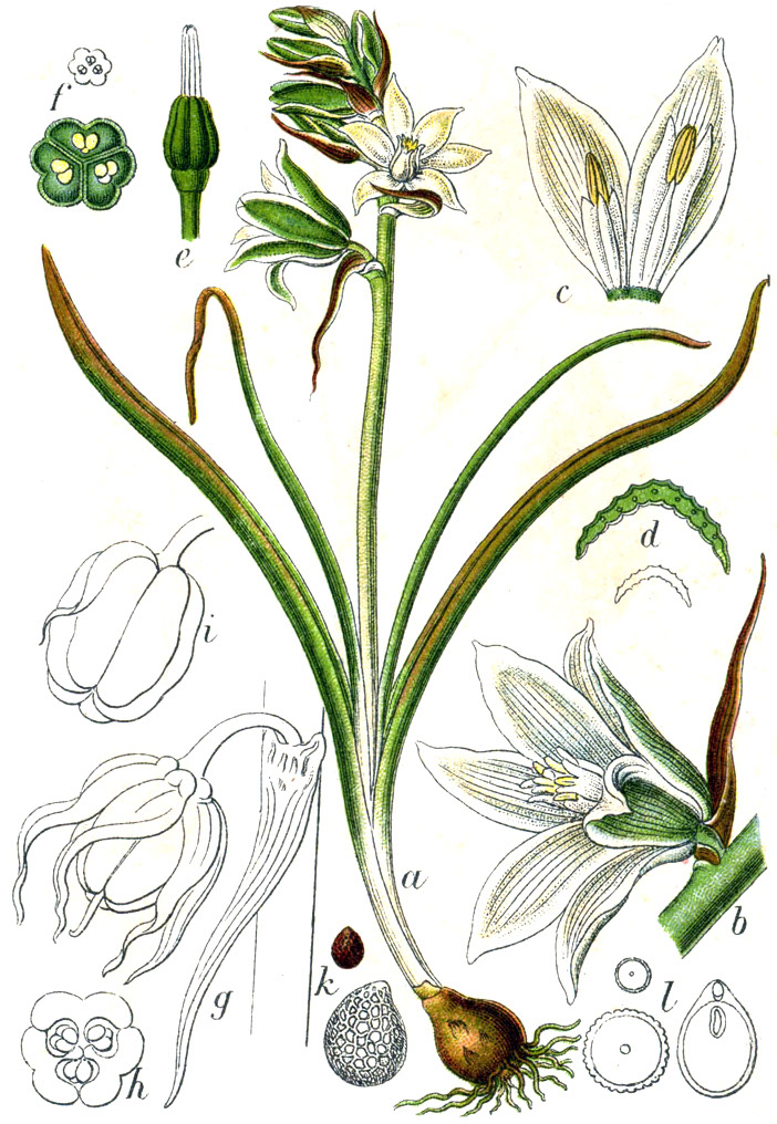 Ornithogalum boucheanum (Kunth) Asch. Original Caption Bouché-Milchstern, Ornithogalum boucheanum